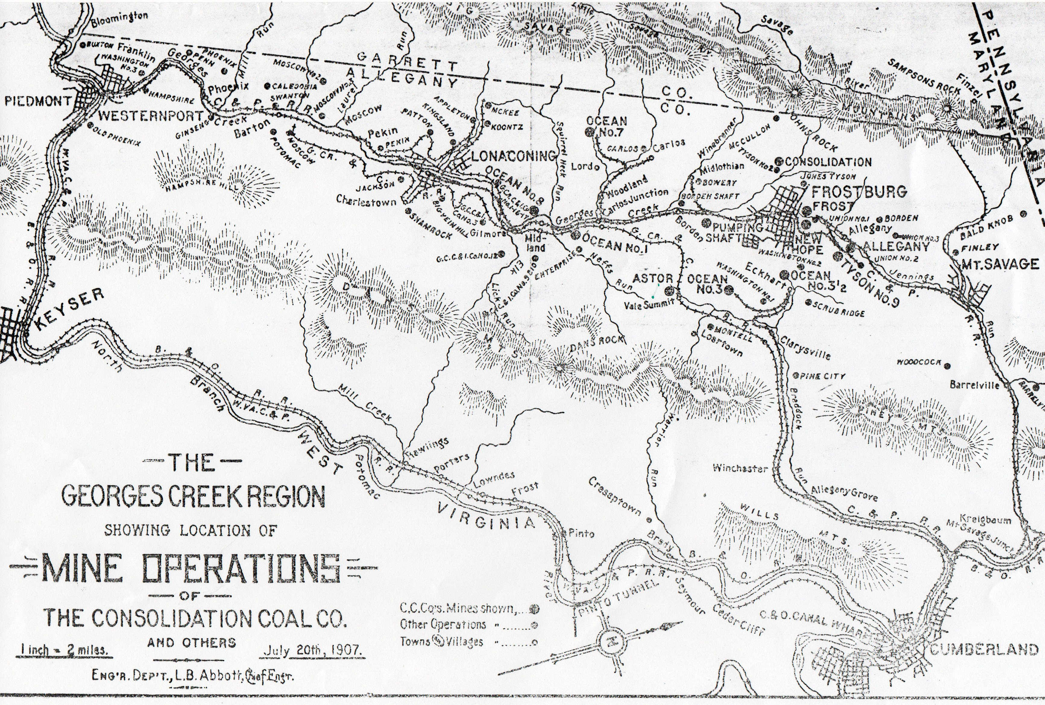 The Georges Creek region in Maryland, showing location of mine operations of the Consolidation Coal Company and others, and rail lines of the Western Maryland Railway, active in the 19th and 20th centuries.